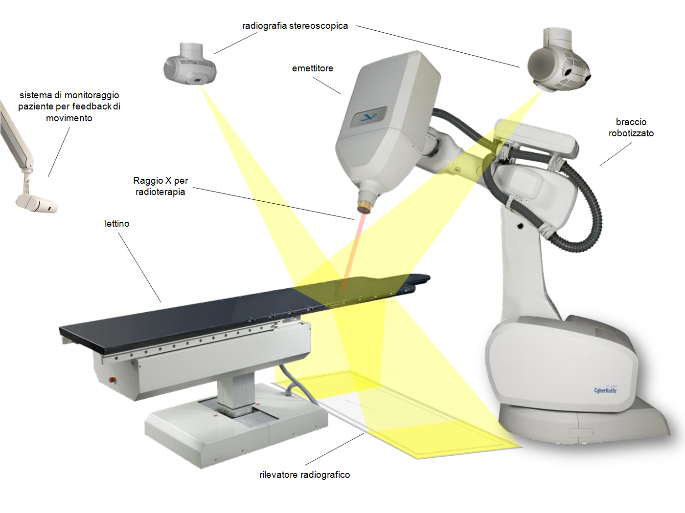 System for radiotherapy called "Cyberknife"